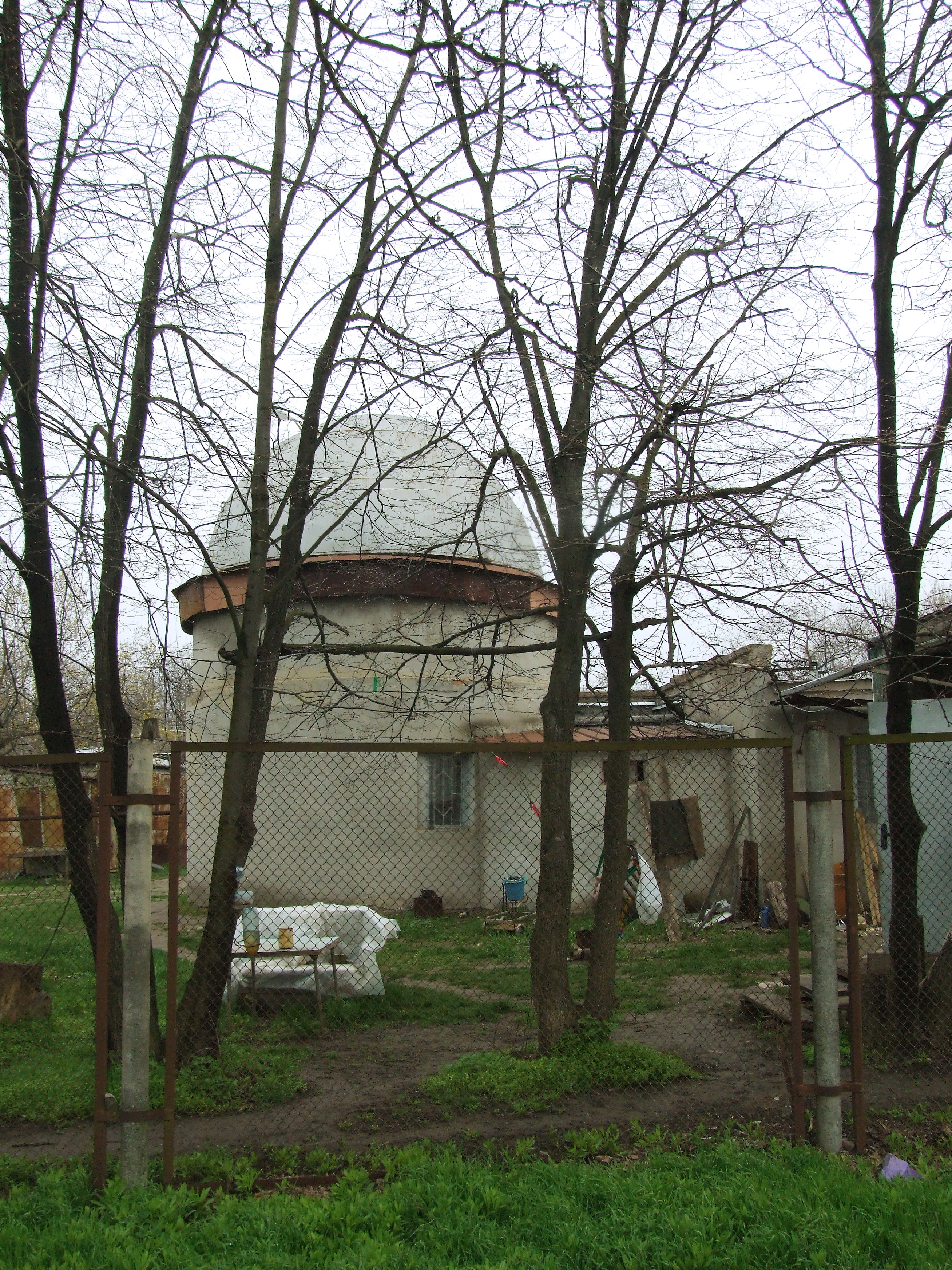 The observation station of Odessa Observatory in Kryzhanivka, Kominternivskyi Raion, Odessa Oblast, Ukraine